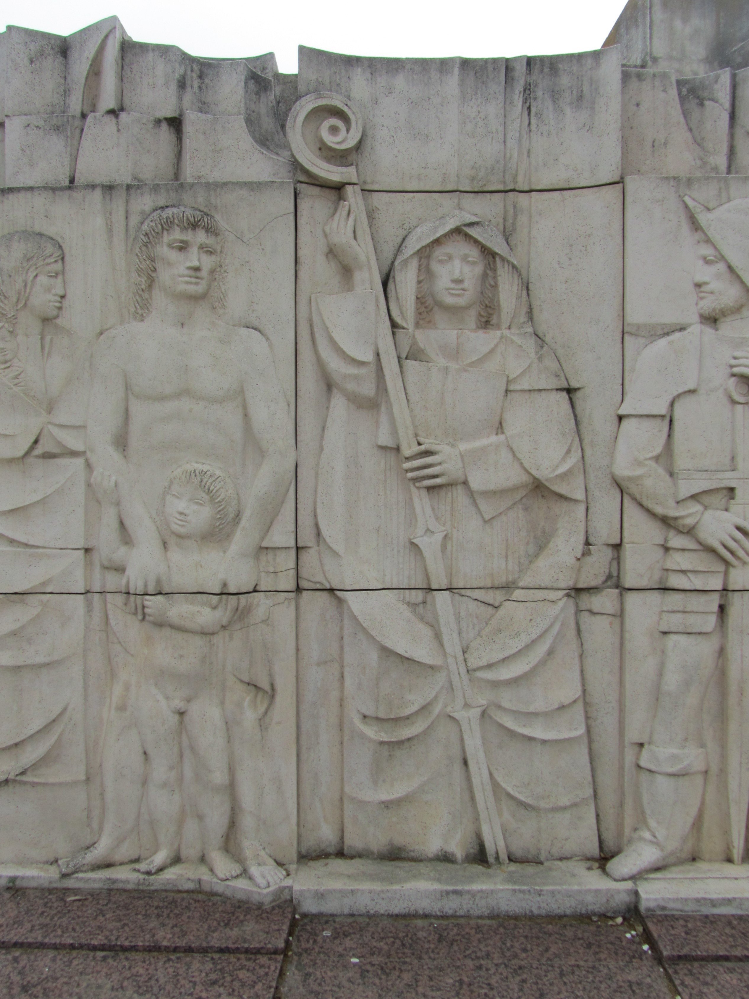 Monument to Bartolomé de Las Casas in Seville, Spain.